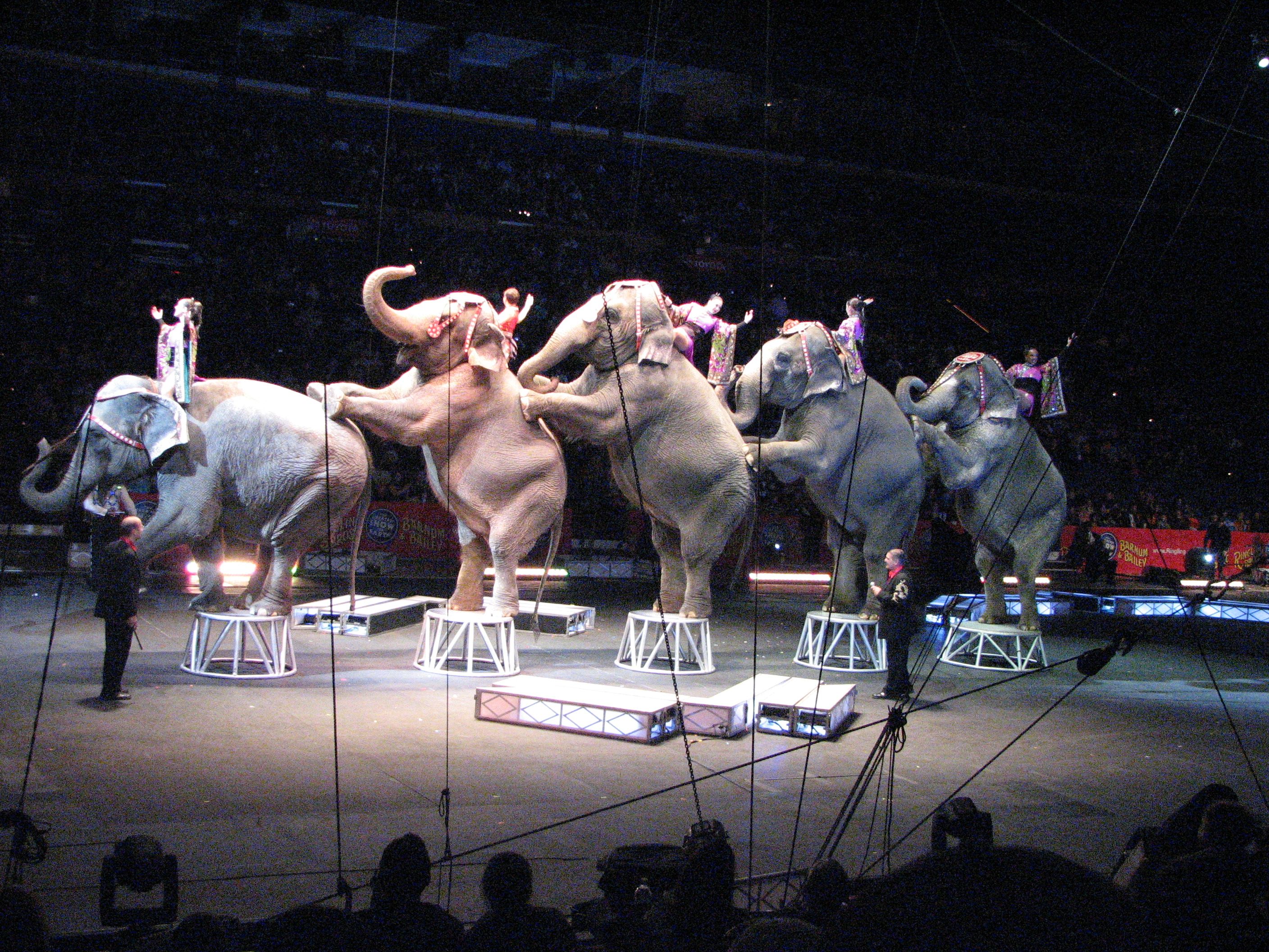 Elephants performing at the Ringling Bros. and Barnum & Bailey Circus at the Scottrade Center in St. Louis, Missouri.